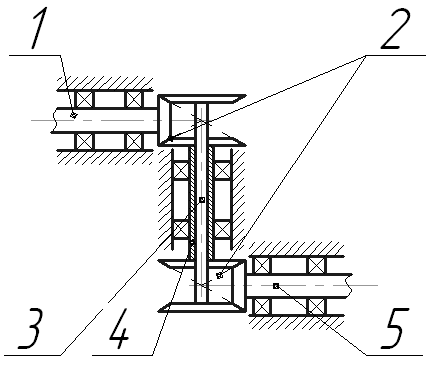 Double Z-shape gear mechanism